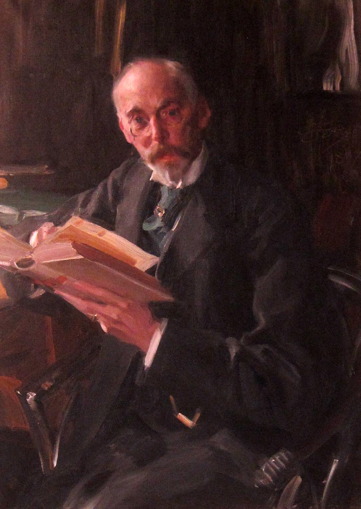 August Quennerstedt (1837-1926),Swedish zoologist and professor at Lund University.